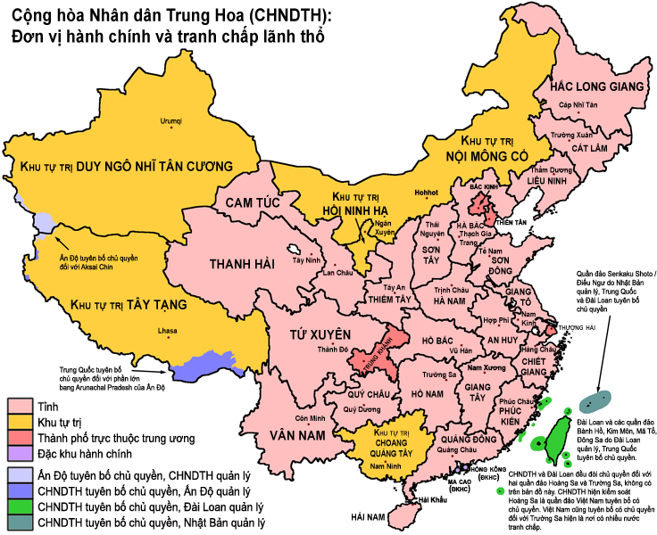 China administrative (in Vietnamese).